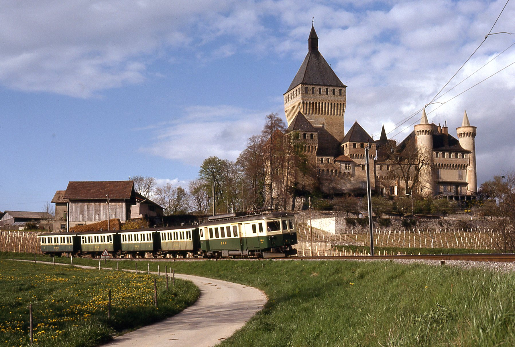 BAM train passing the Château de Vufflens.